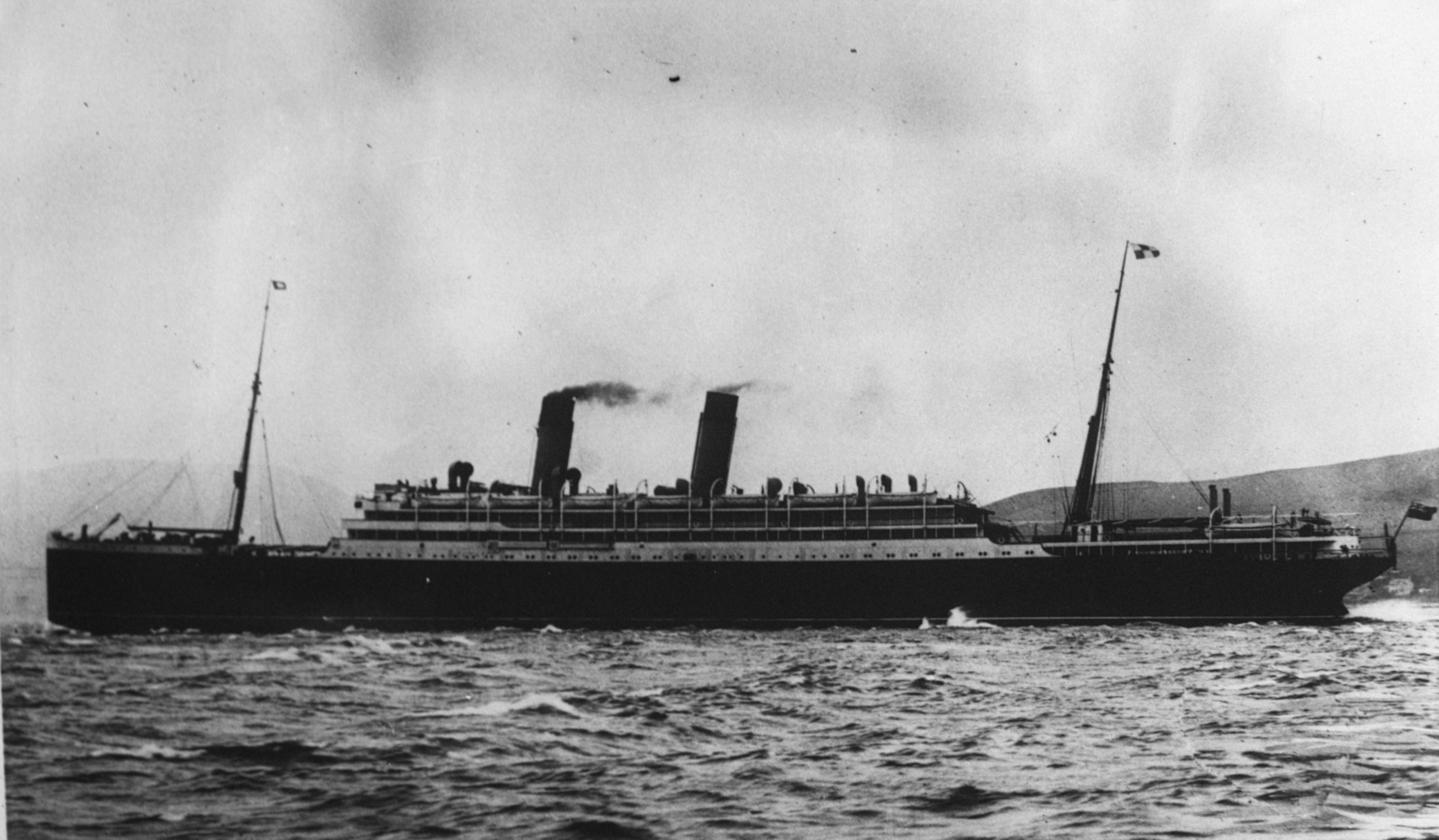 Empress of Ireland: Canadian steamship that sank on May 29th, 1914. Picture taken by Agence Rol.